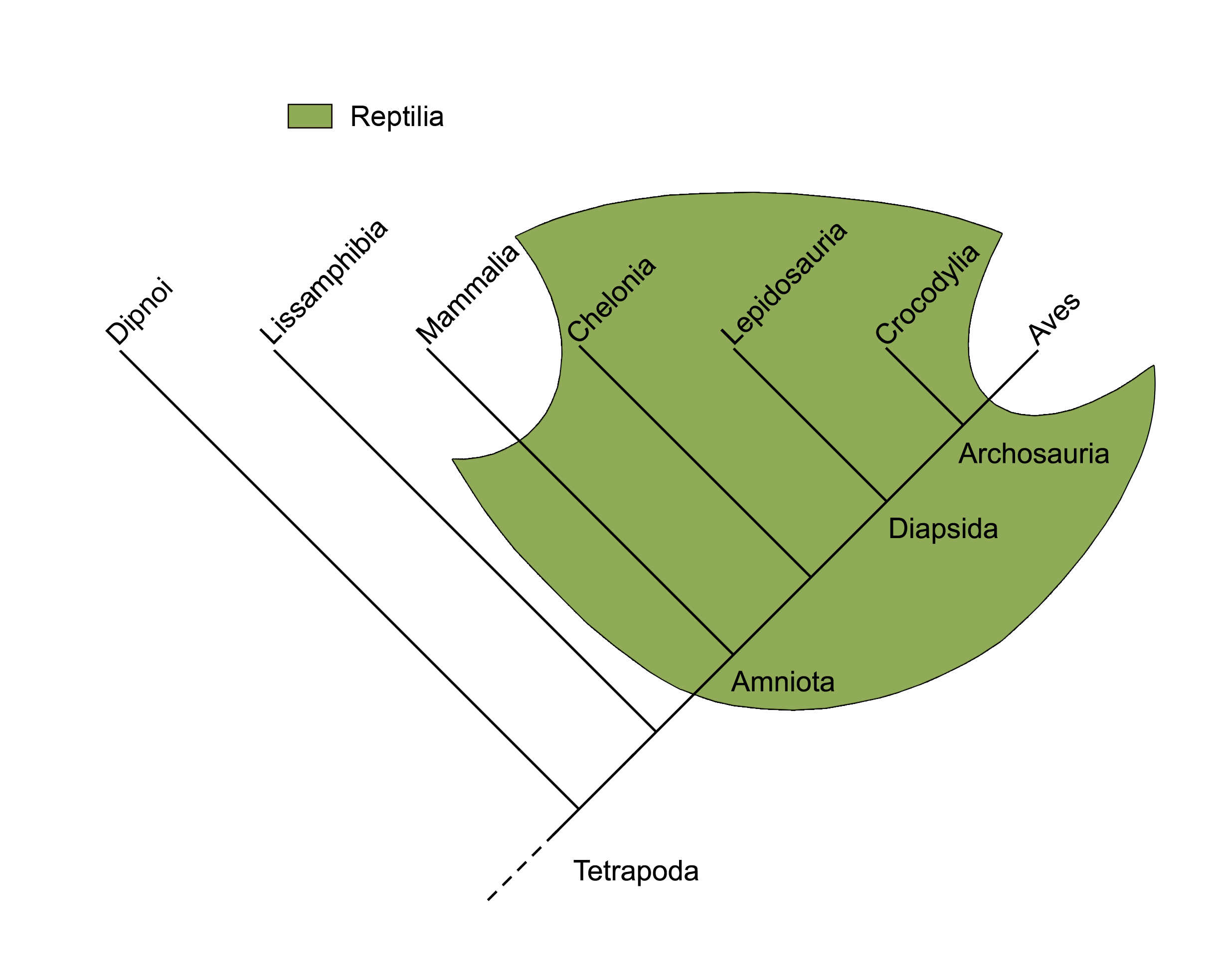 Simple diagram showing the relationship between cladistic and traditional classification of the class Reptilia. The traditional definition of Reptiles is a paraphyletic assemblage compromising all amniote lineages, with the exception of birds and mammalian synapsids. Based on the file File:Paraphyletic.svg.